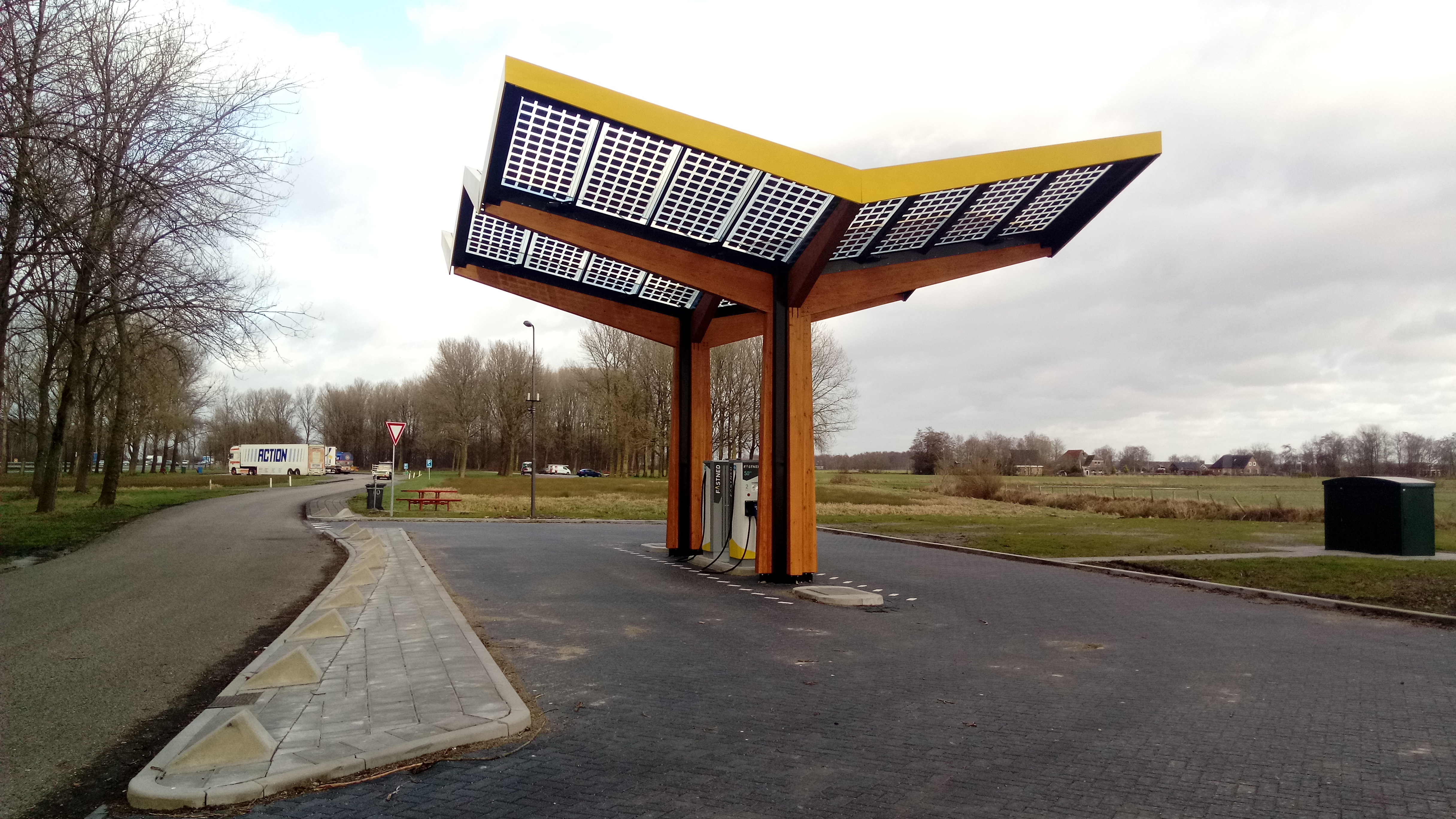 A local charging station for electric vehicles in the Frisian area of De Wâlden ("The Woods").